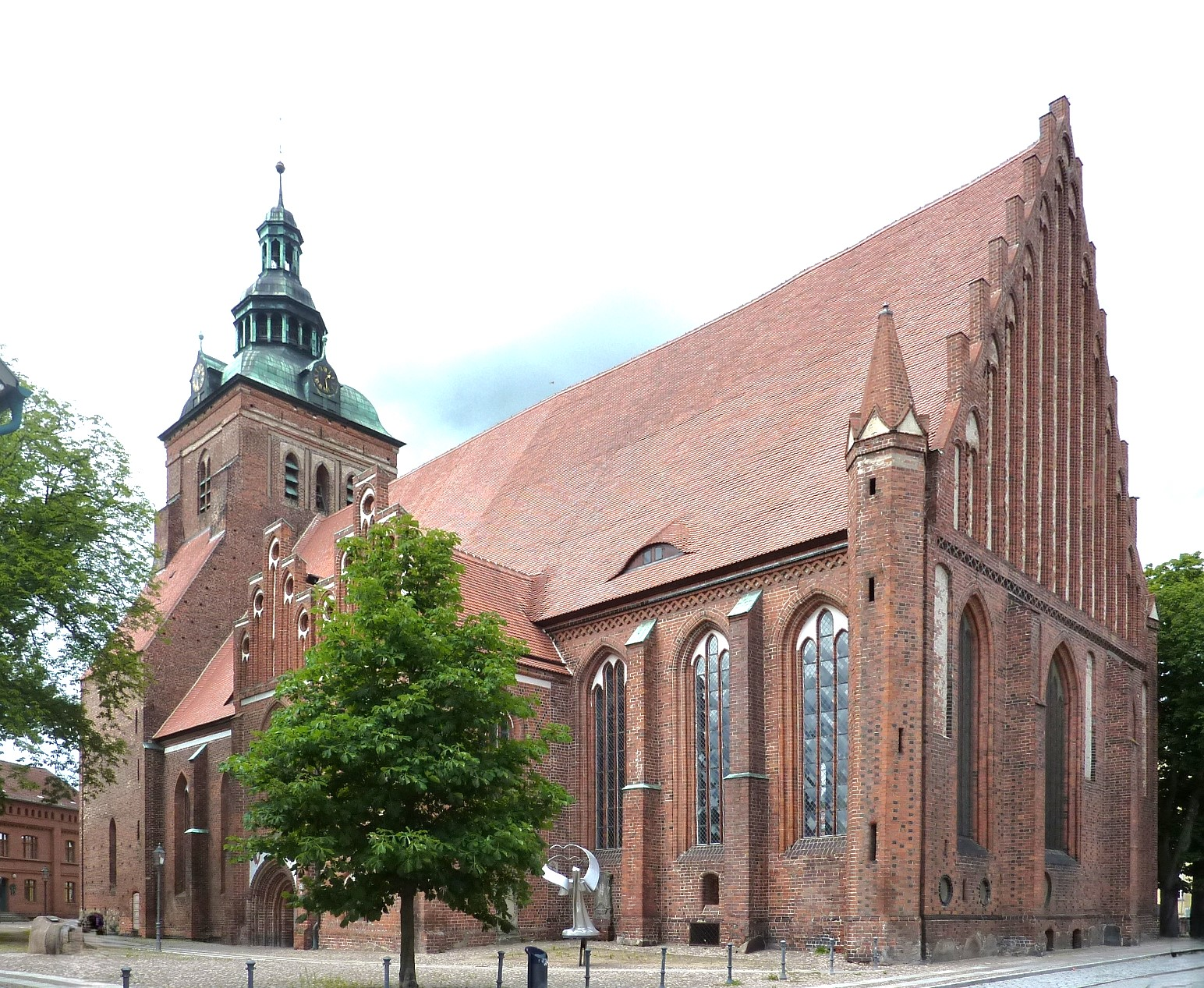 St.Mary-Church in Wittstock, Ostprignitz-Ruppin district, Brandenburg state, Germany